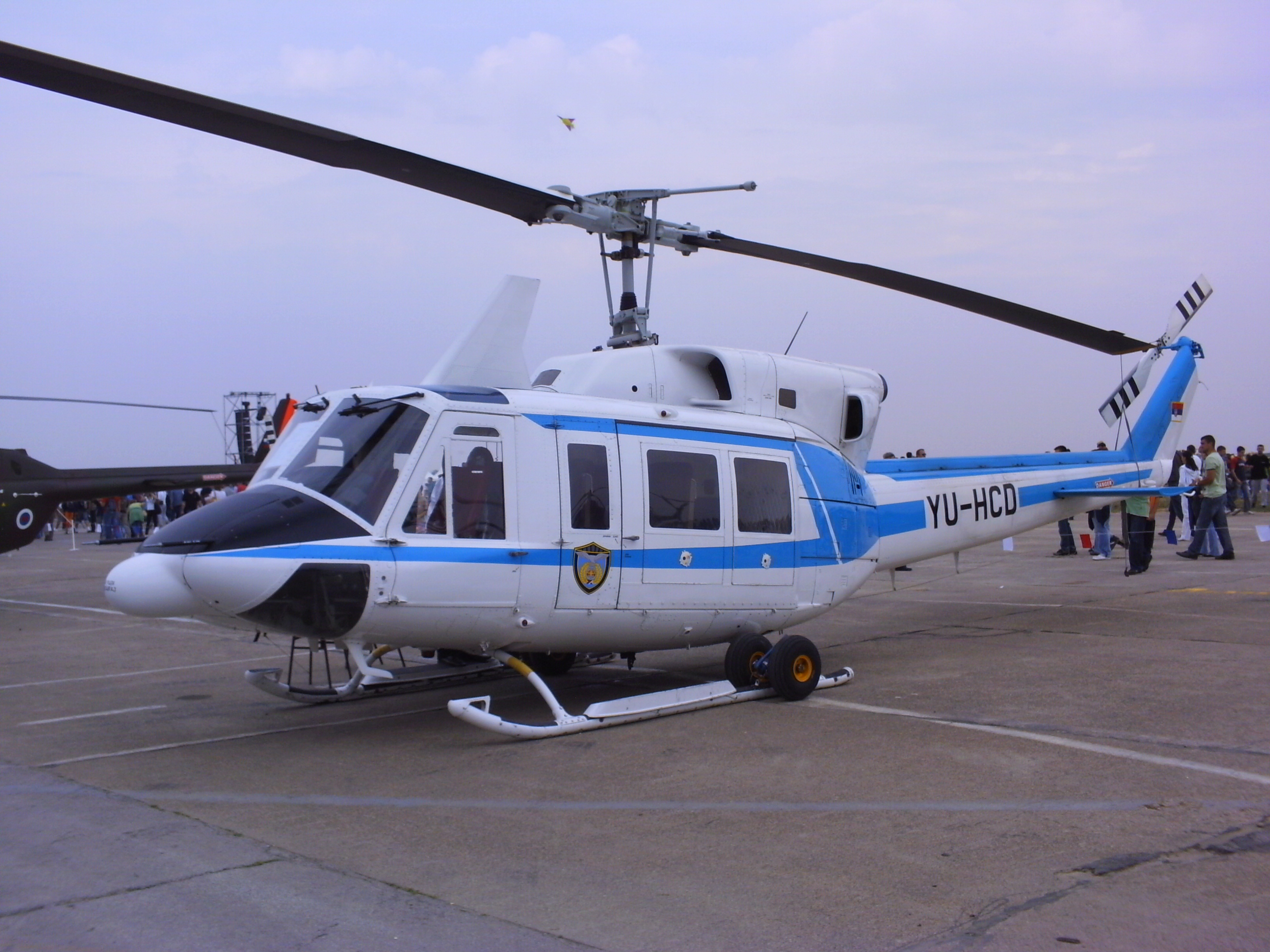 Bell 212 of Serbian MUP